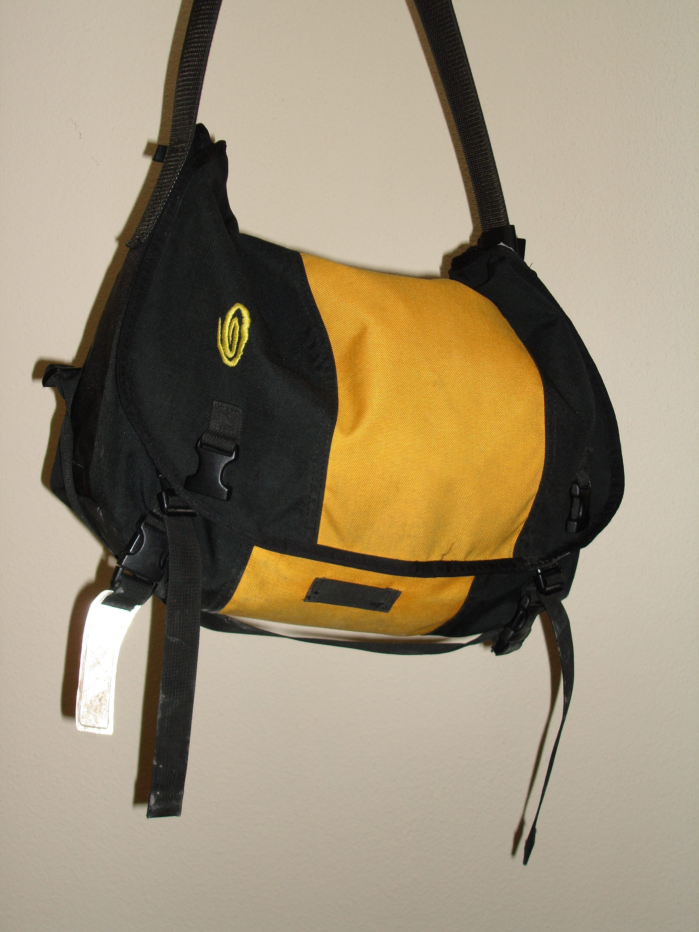 custom-made messenger bag „DeeDog“ by Timbuk2